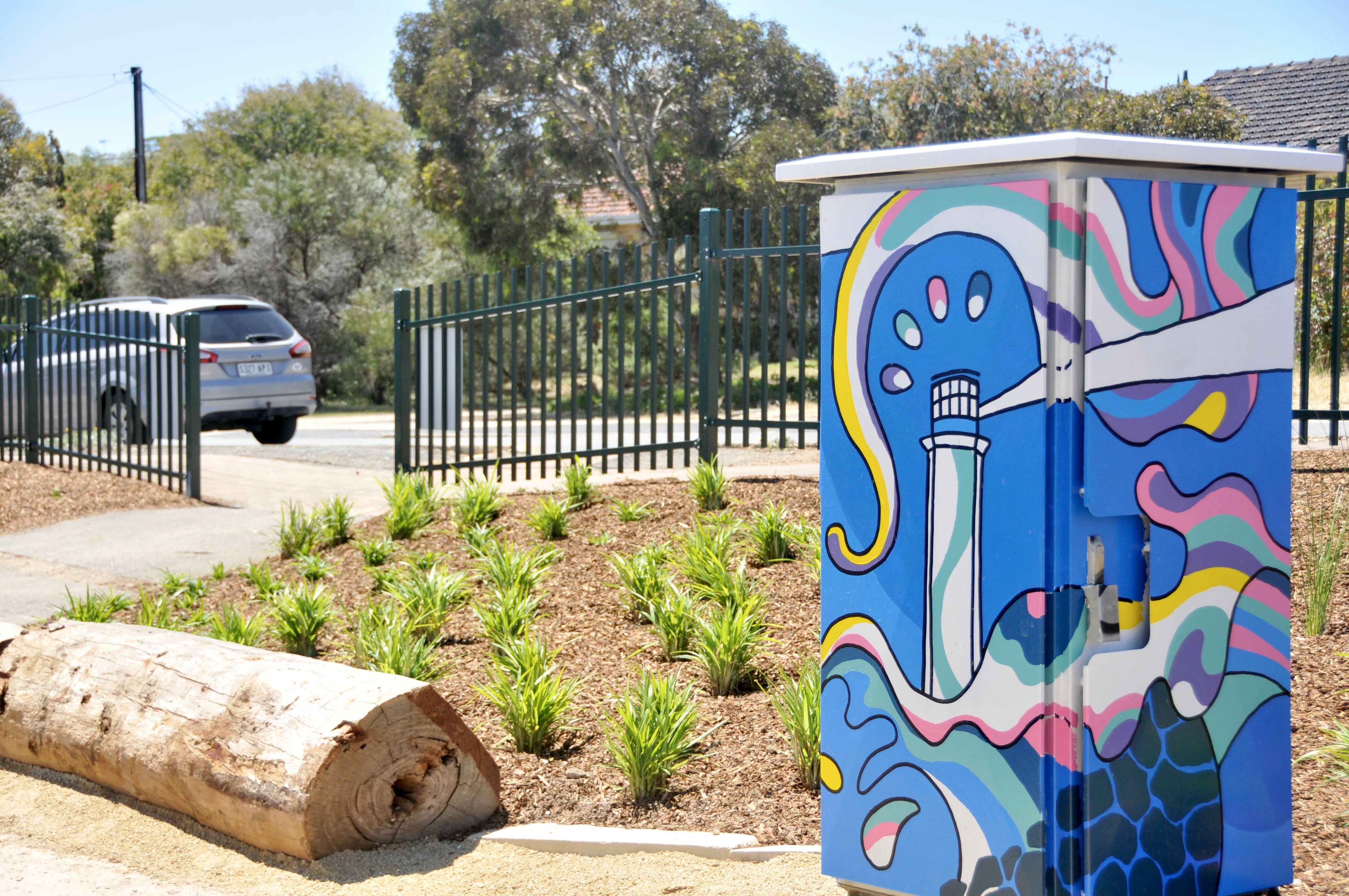 Marino Rocks staton artwork featuring Marino Rocks lighthouse by Blake Lovas